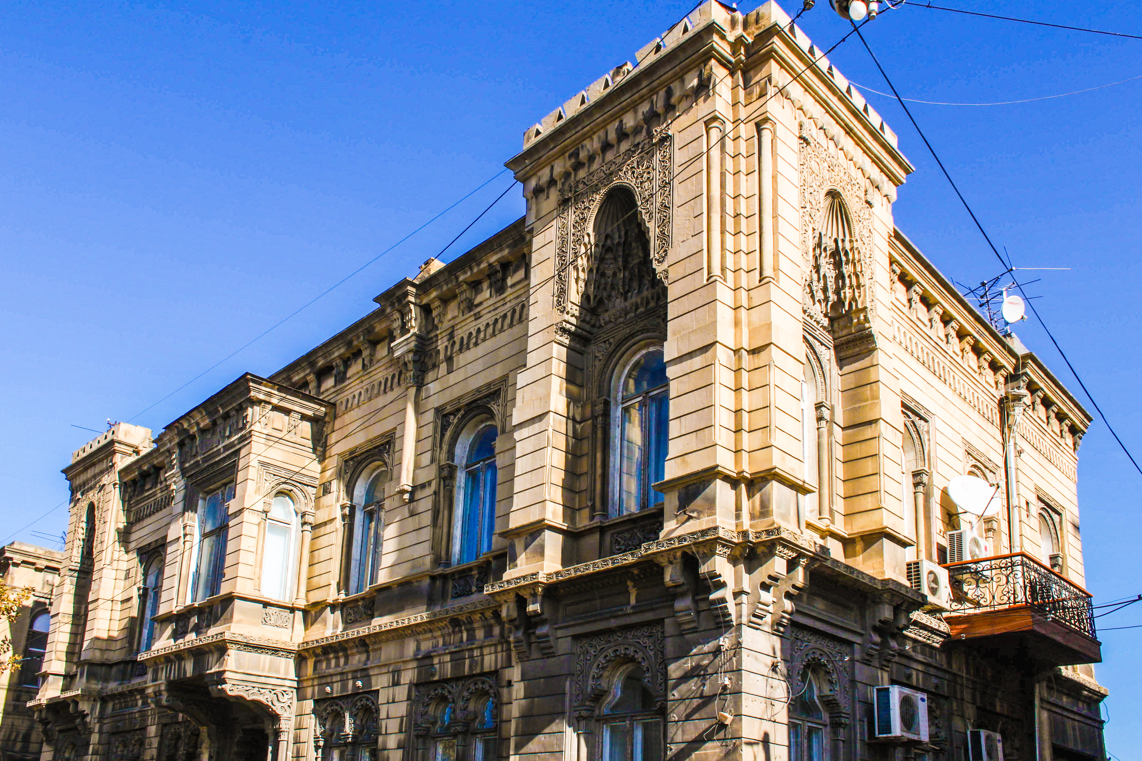 The Building of the Union of Architects of Azerbaijan façade